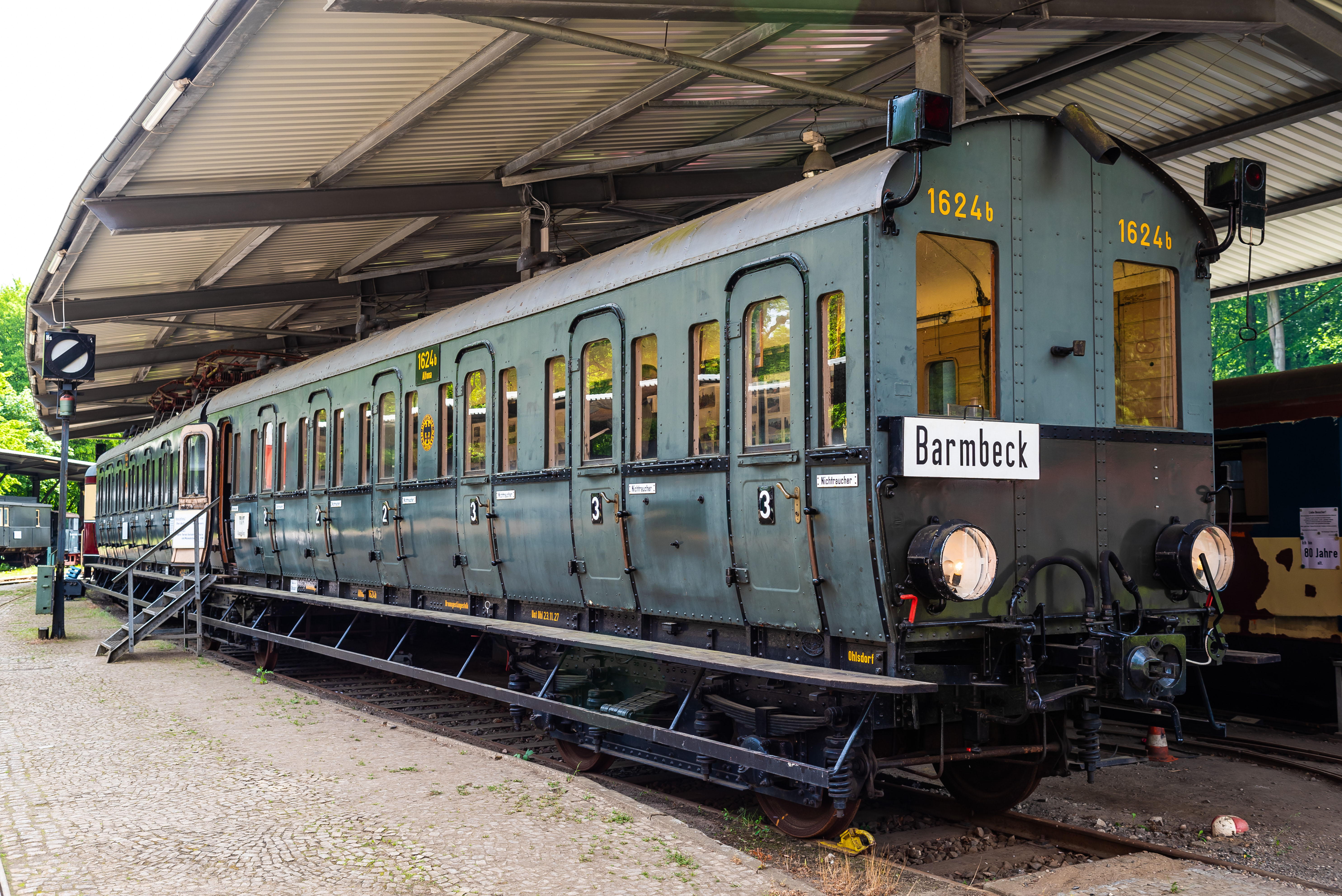 Electric unit elT 1624a/b of the Hamburg suburbian railroad Blankenese–Ohlsdorf (original line of and precursor to the present Hamburg S-Bahn) on exhibition at tzhe railroad museum at Aumühle, Schleswig-Holstein, Germany.